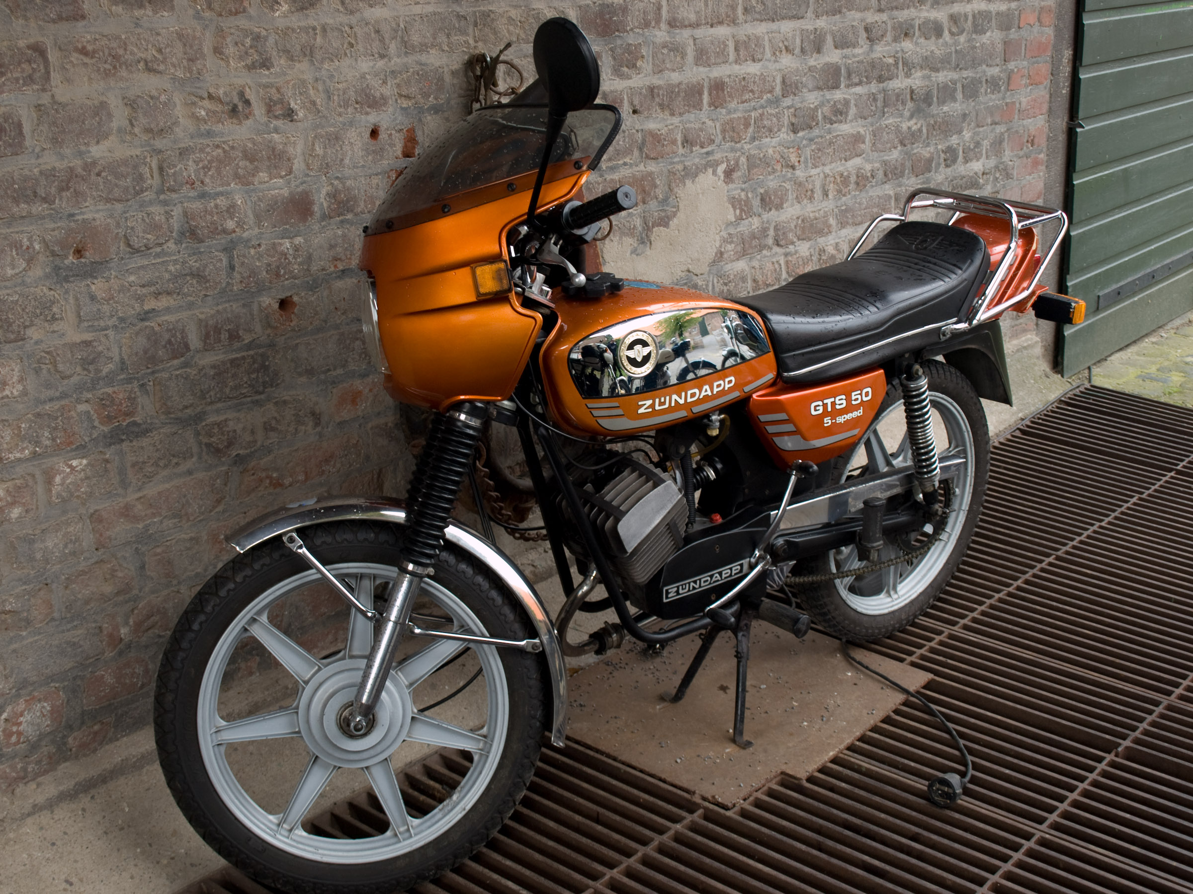 Zündapp GTS 50 5-Speed Polybauer